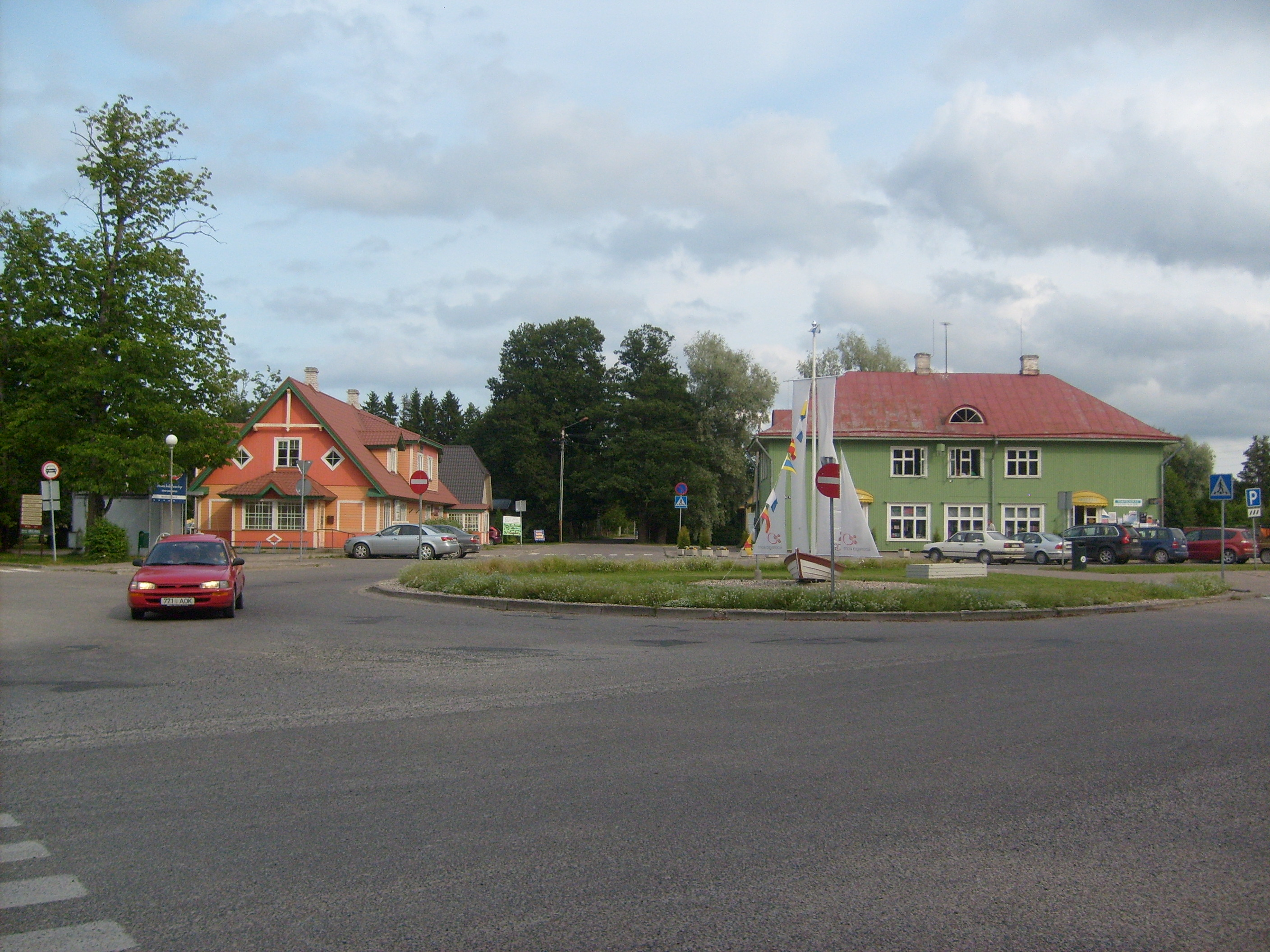 The main town square of Kardla, Hiiumaa, Estonia